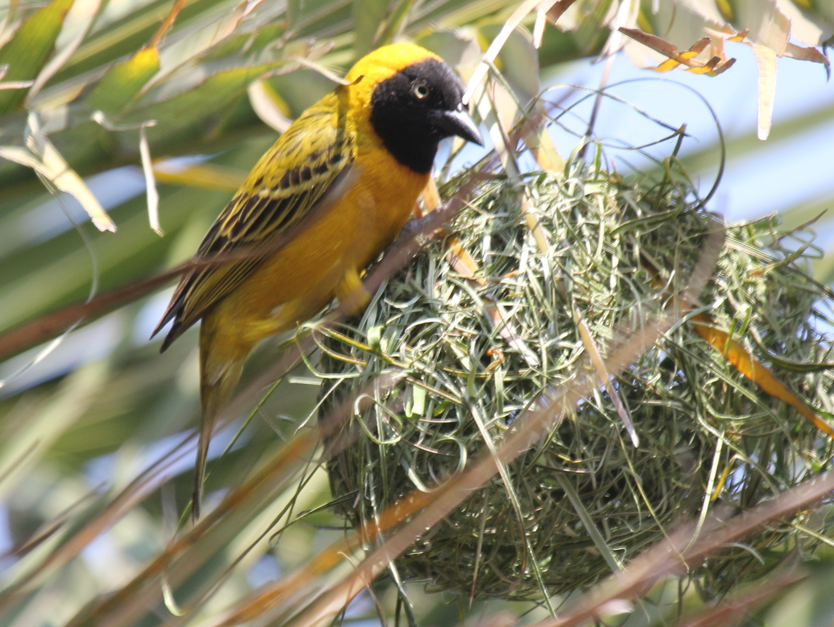 Male Lesser Masked Weaver (Ploceus intermedius) at Hluhluwe-Umfolozi Game Reserve, South Africa